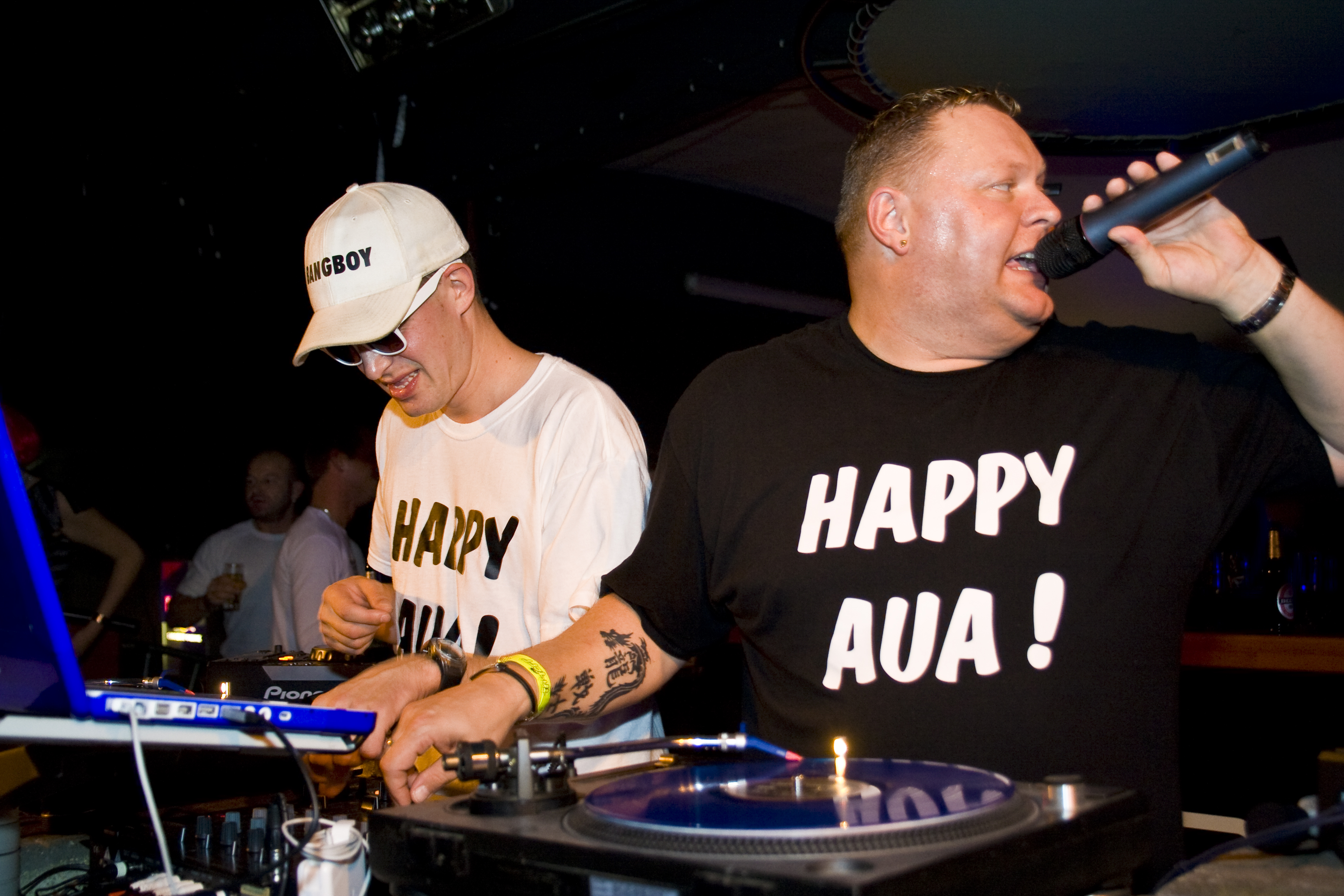 Bangbros live at TECHNO4EVER.FM Birthday Rave at Ta-Töff in Bevern